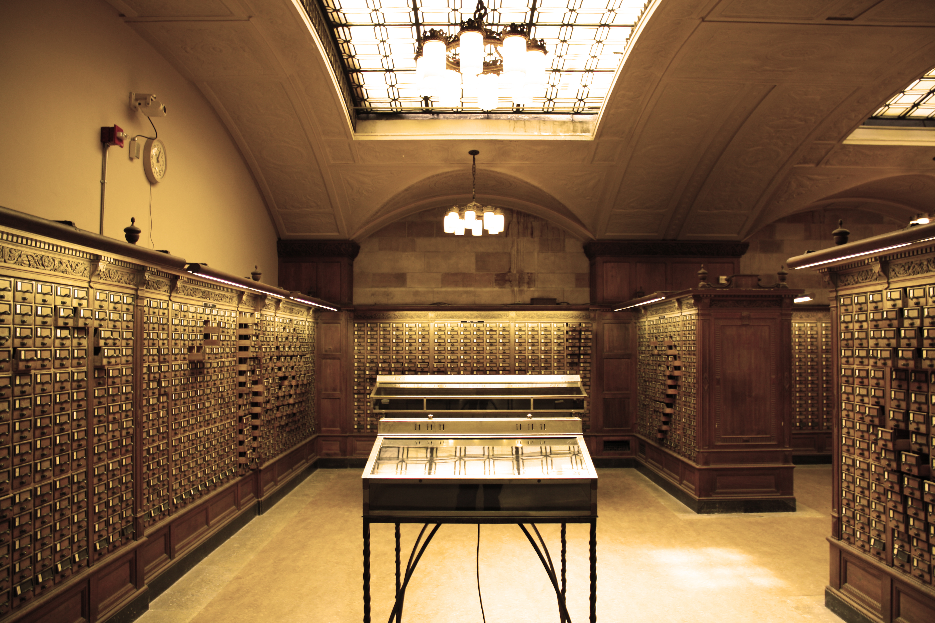 Card catalog at the Sterling Memorial Library